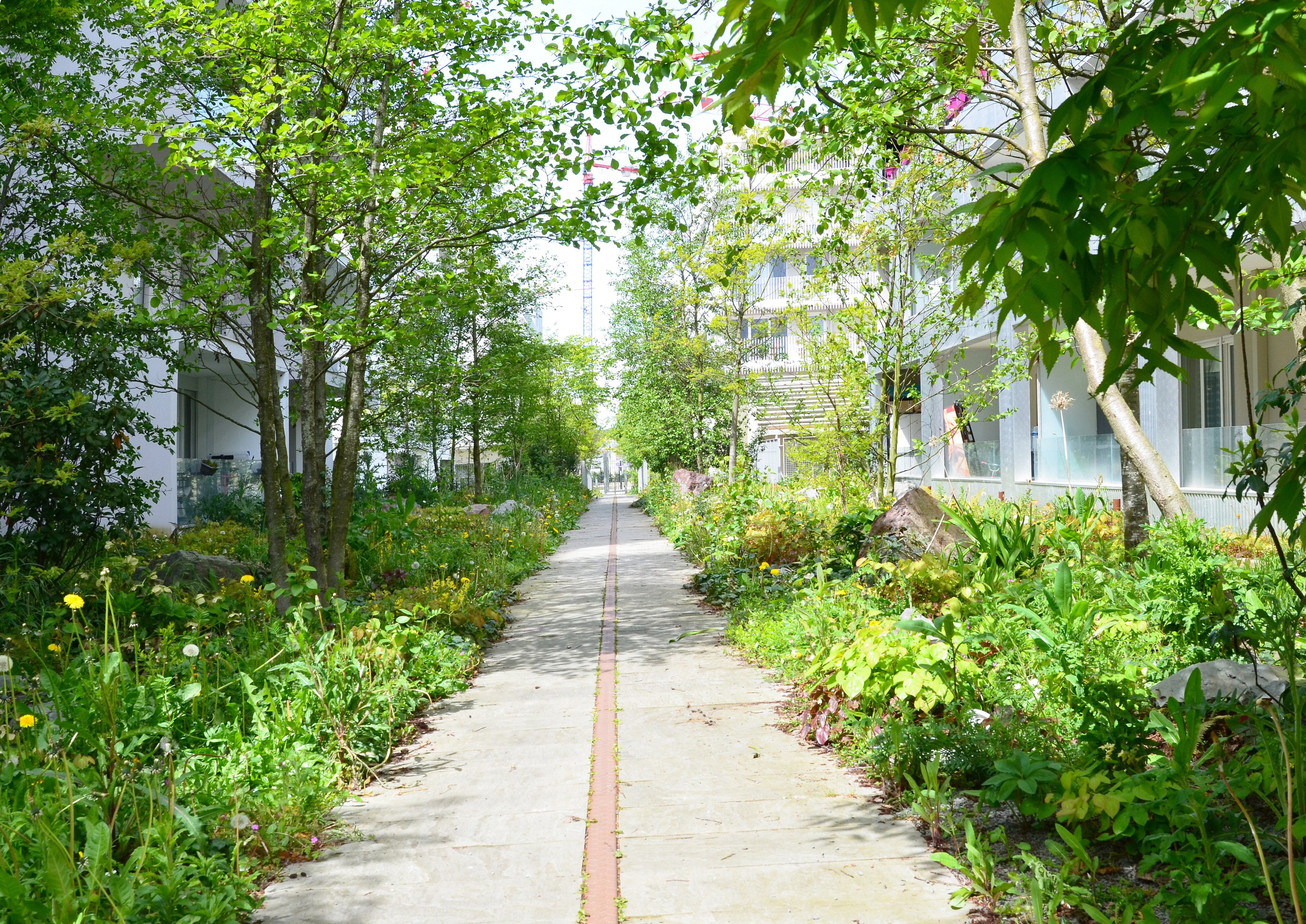 View Oz'Wood at Massy (France)